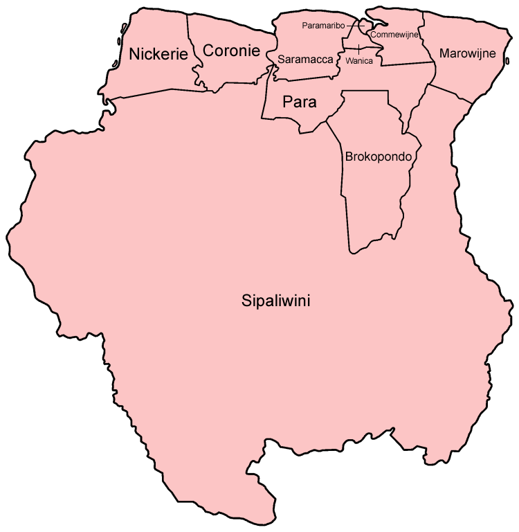 Map of the districts of Suriname in Dutch (local language). Made by User:Golbez.